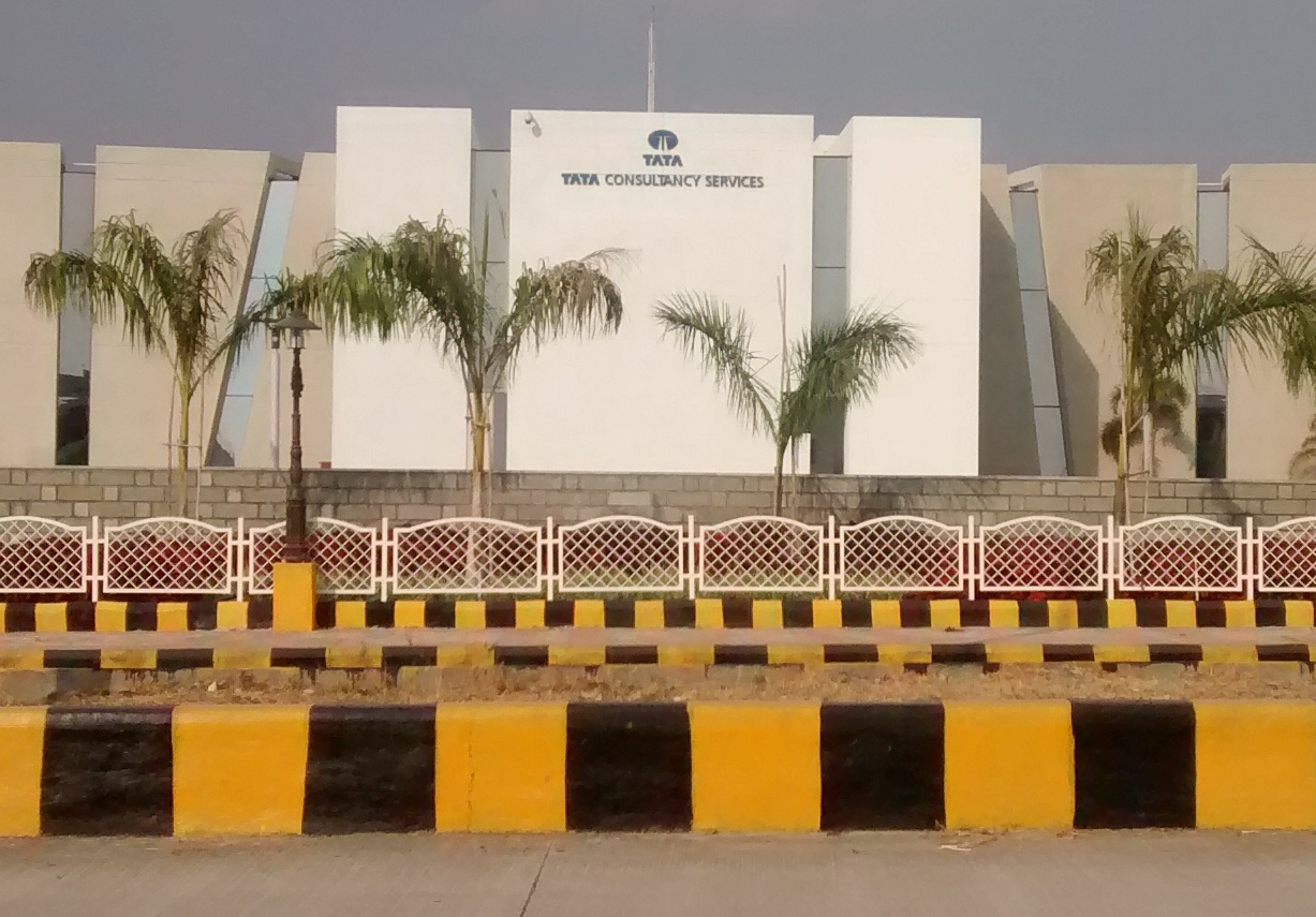 Its an image of the TCS Campus in Nagpur MIHAN